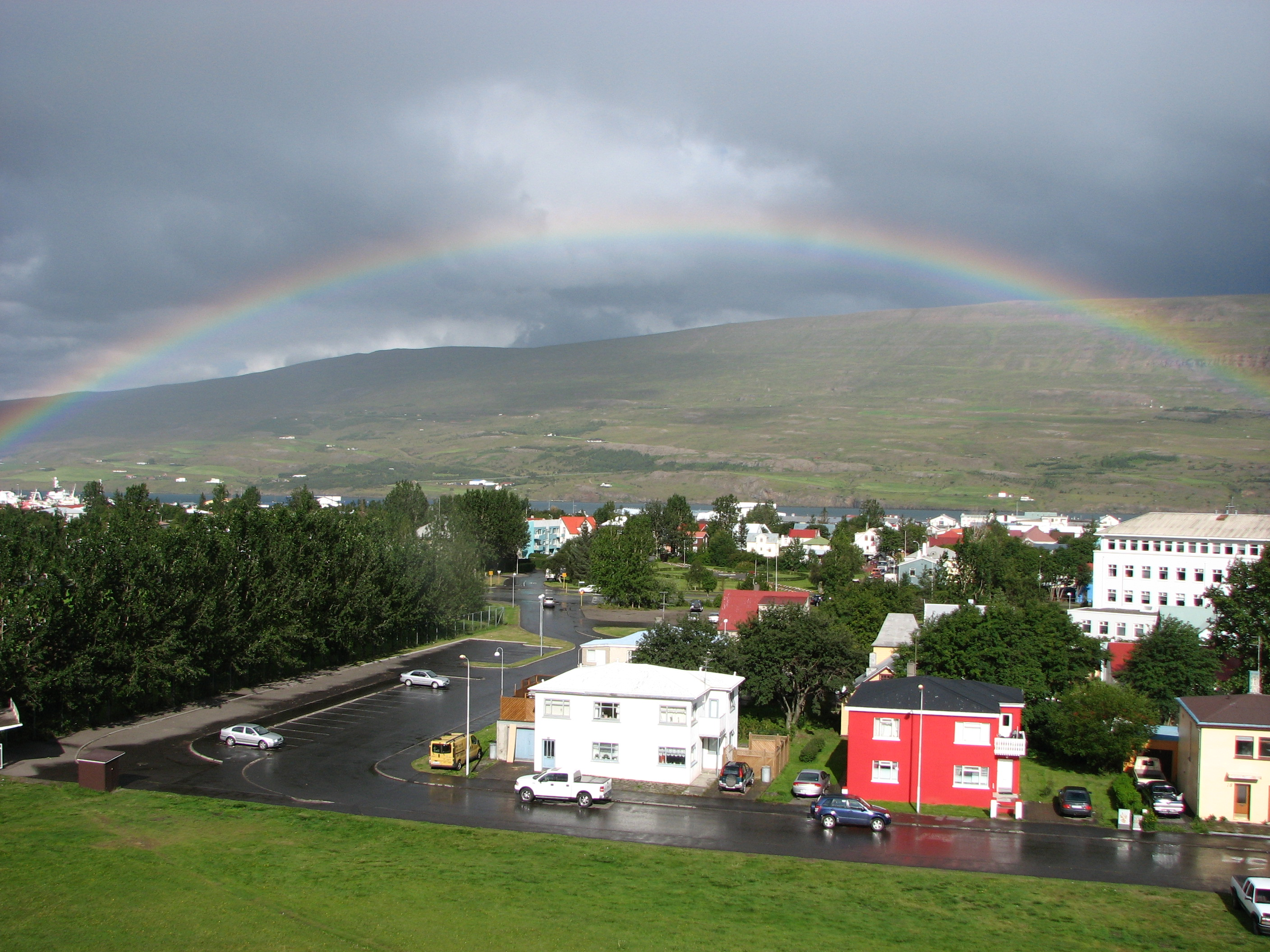 Rainbow, Akureyri, Iceland (August 2009)